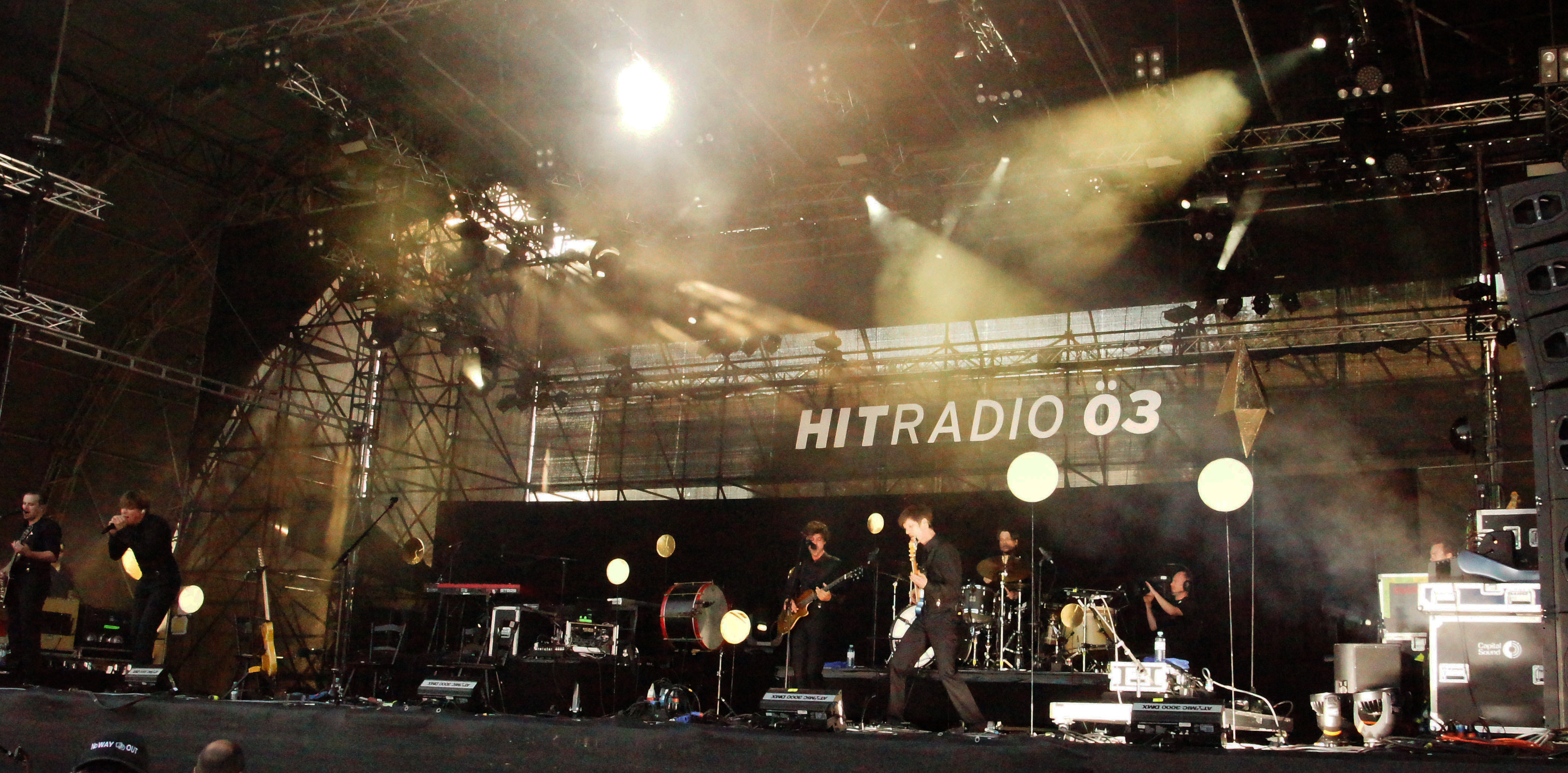 German band 'Philipp Poisel' on 2013 Donauinselfest, one of 'final events'.